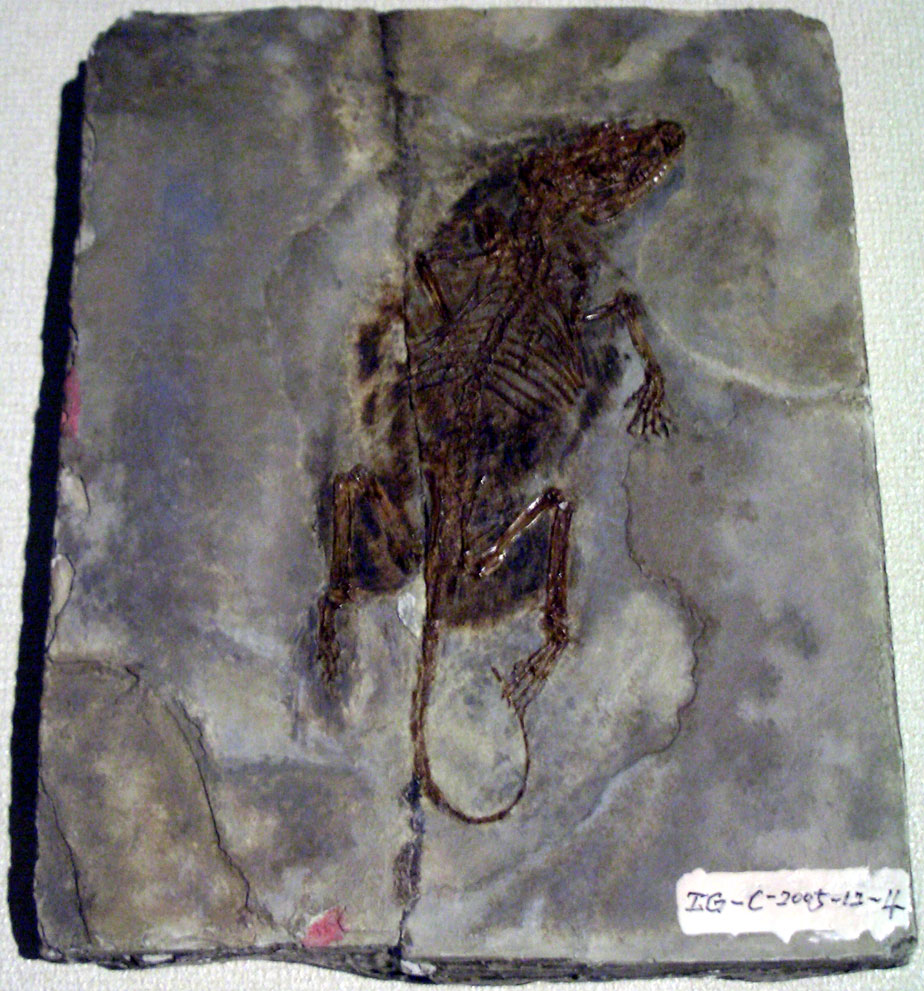 Zhangheotherium quinquecuspidens fossil displayed in Hong Kong Science Museum